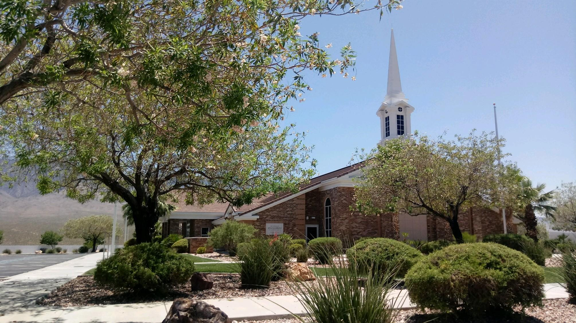 Mormon Church in Littlefield, Arizona